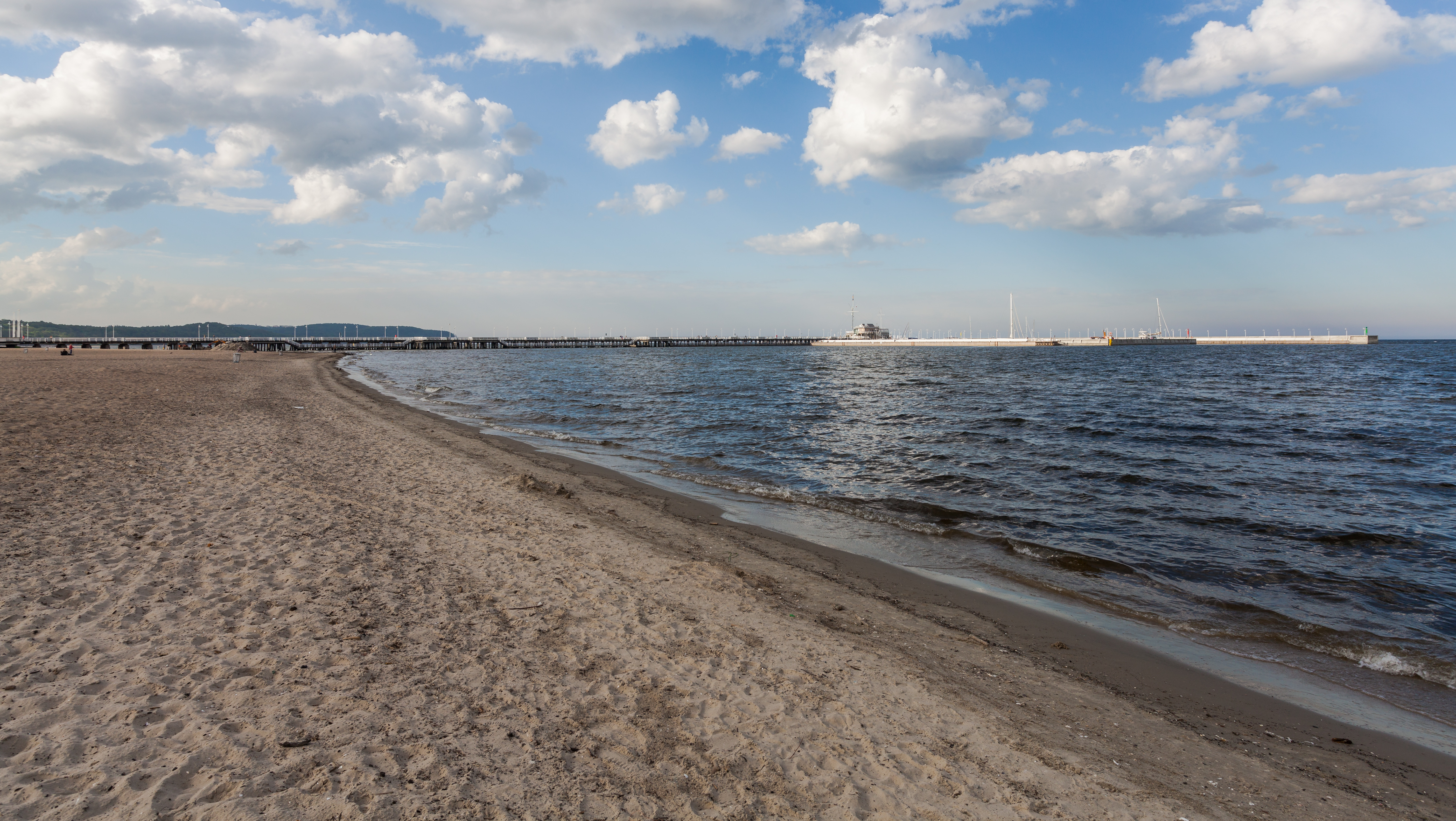 Promenade pier of Sopot, Poland